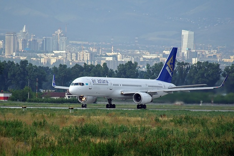 Air Astana Boeing 757 plane taking off from Almaty Airport